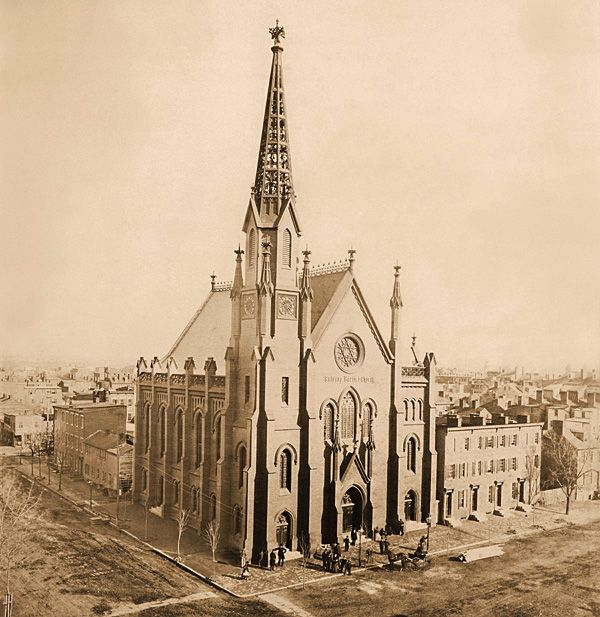 Calvary Baptist Church in Washington, D.C.